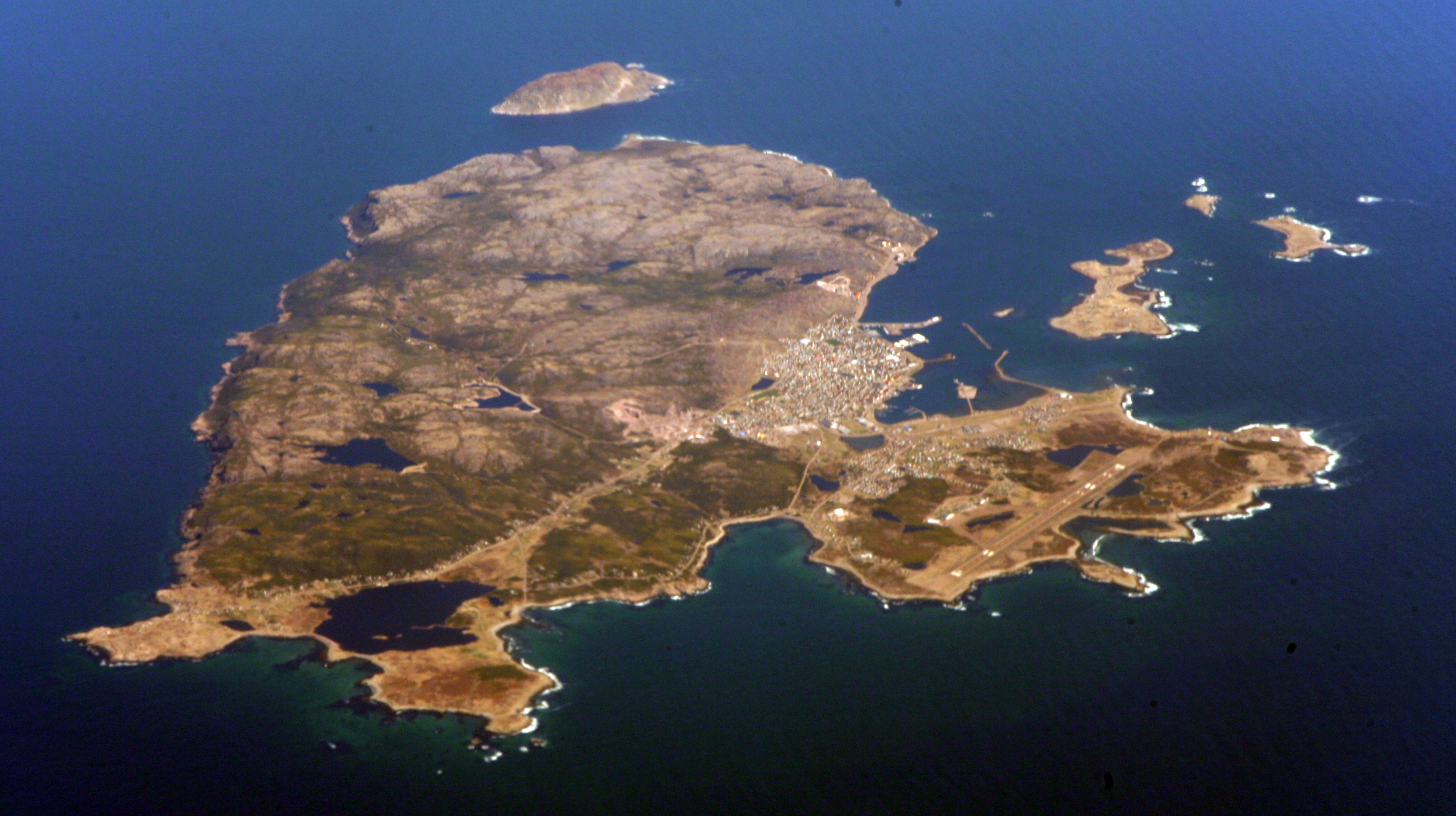 In French, this is Ile Sainte-Pierre. In English, Saint Pierre island. The town there, with the harbour, goes by the same name. The airstrip, bottom right, is relatively new. More here.